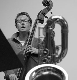 Jesper Bodilsen